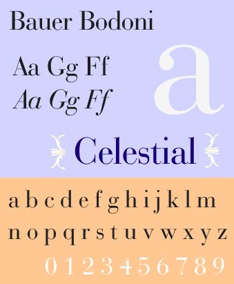 Specimen from the Bauer Bodoni typeface